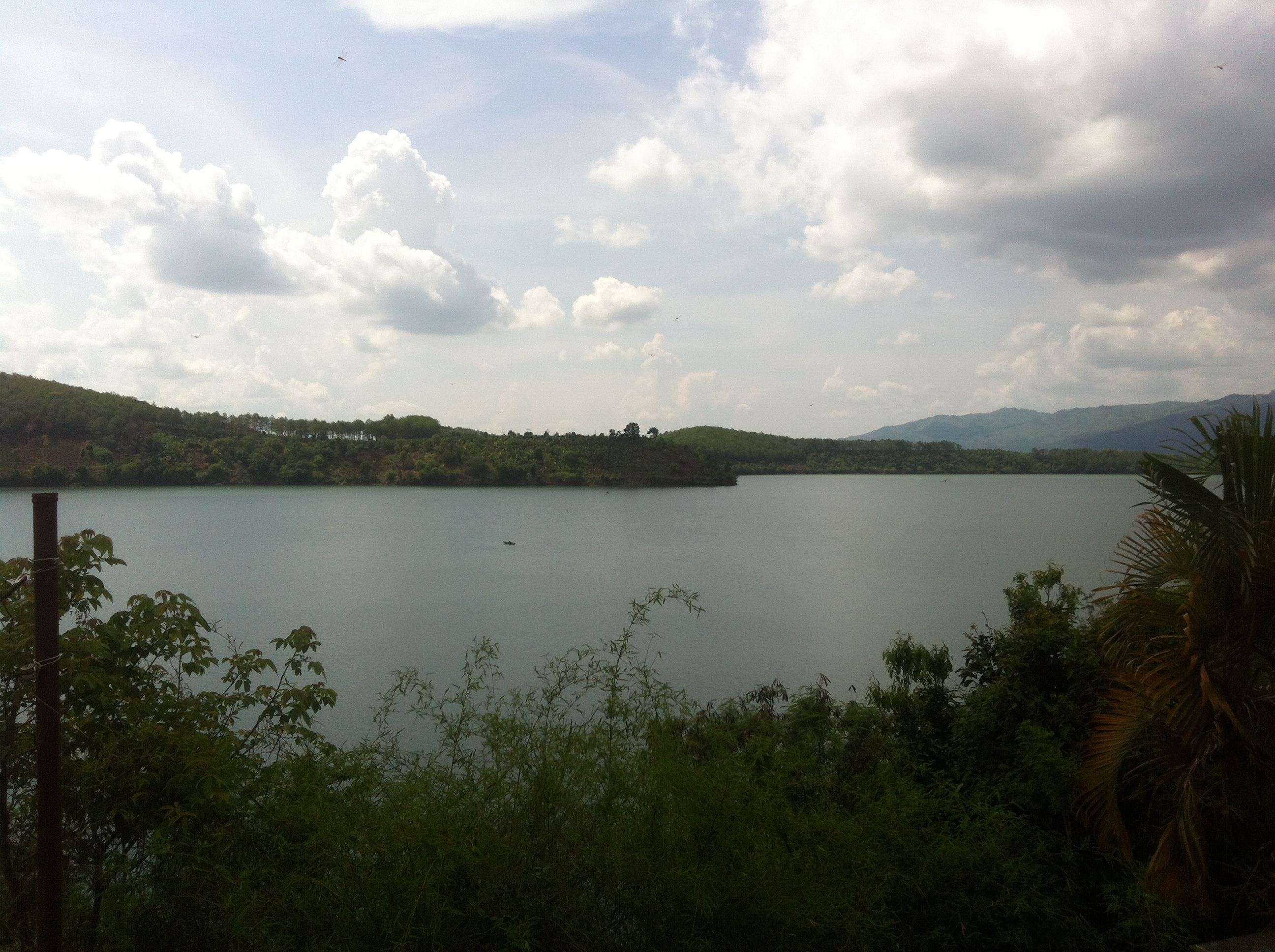 Tơ Nưng Lake in Pleiku, Vietnam